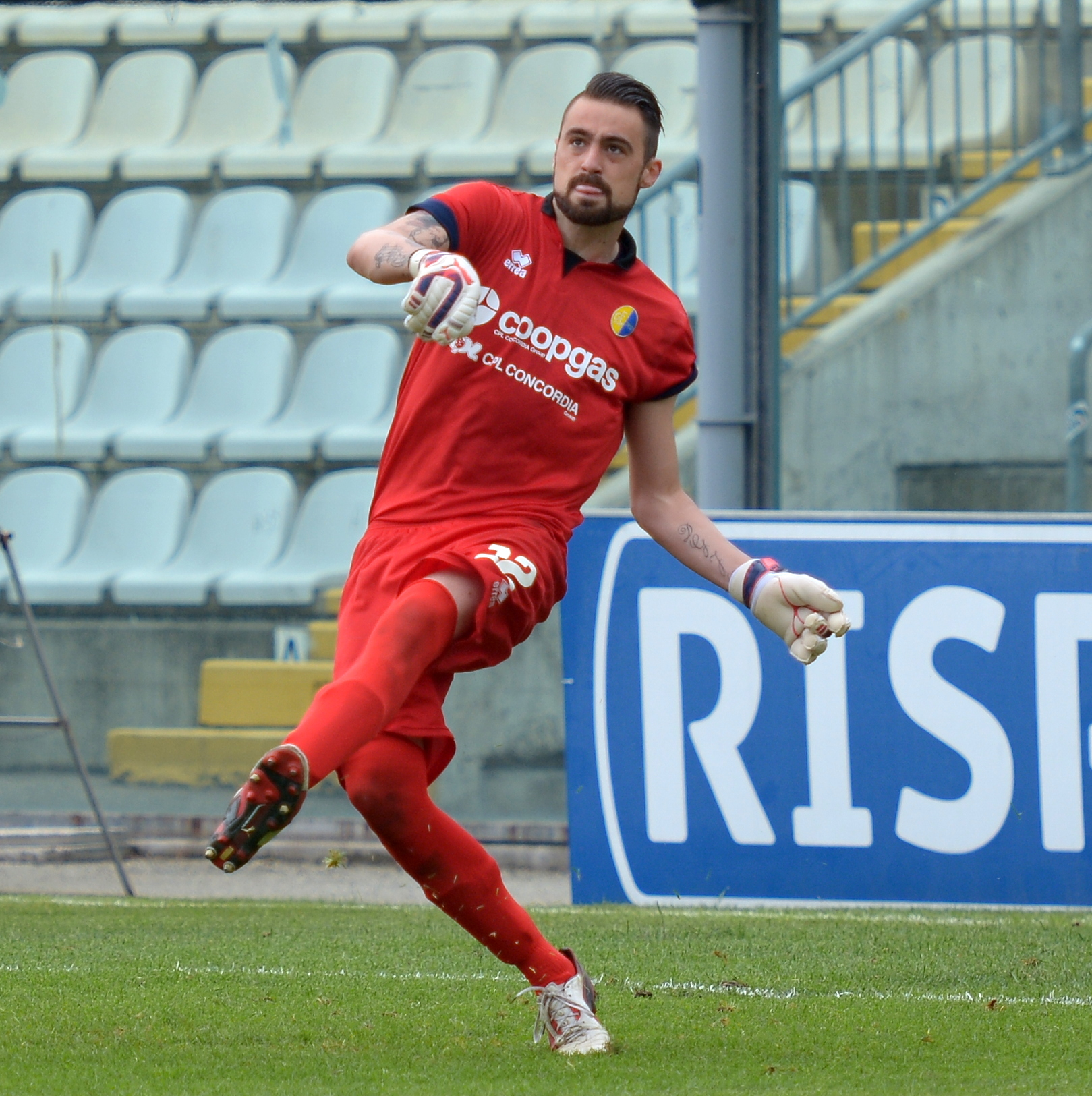 Carlo Pinsoglio in action with the shirt of Modena Soccer Team